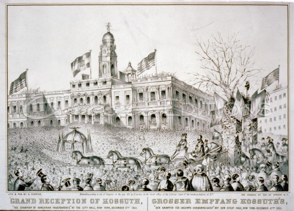 Grand reception of Kossuth: "the champion of Hungarian Independence" at the City Hall, New York, December 6th 1851 Grosser Empfang Kossuth's: der Kaempfer fur Ungarn's Unabhaengigkeit" bey dem Stadt Haus, New York, December 6ten 1851.